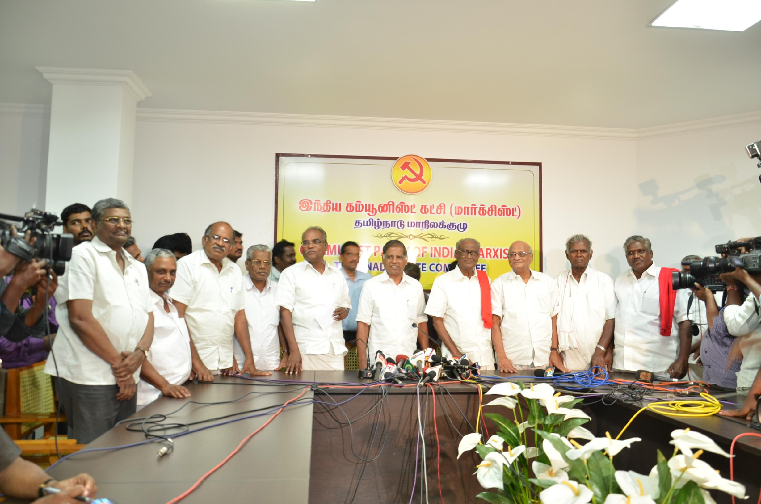 CPI(M) and CPI Tamilnadu Leaders Meeting about 2014 Lok Sabha Election